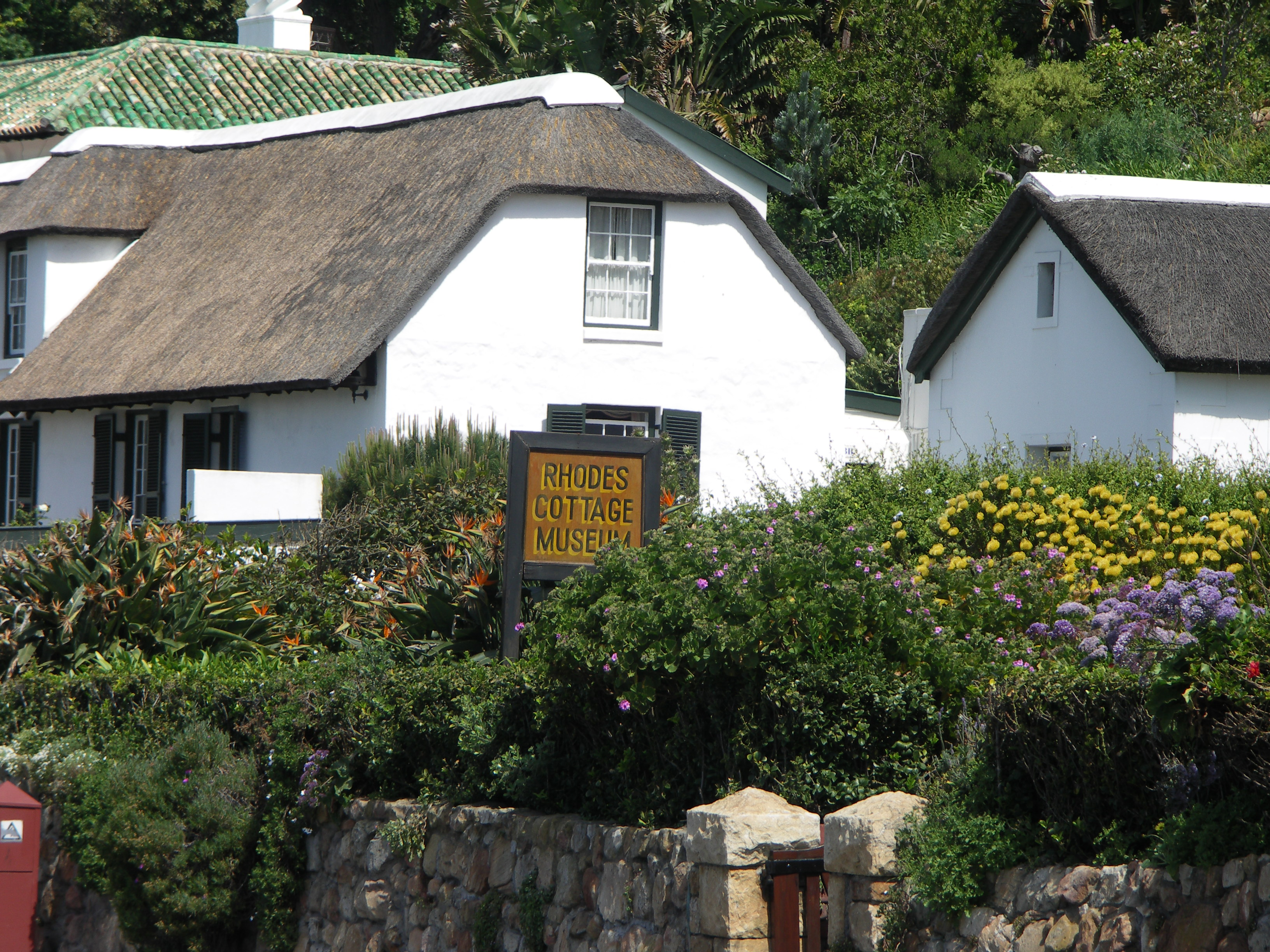 The Rhodes Cottage Museum, 246 Main Road, Muizenberg, South Africa This media shows a South African Protected Site with SAHRA file reference 9/2/081/0050See also: External entry in South African Heritage Resource Agency database.